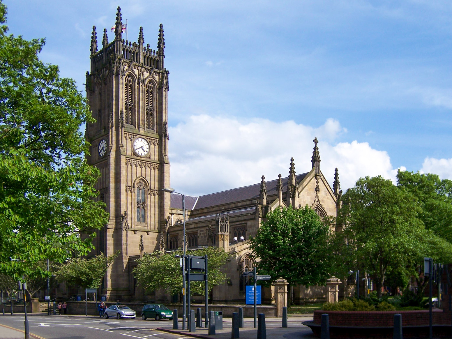 Leeds Parish Church of St. Peter's, Leeds, West Yorkshire (England). Renamed Leeds Minster in September 2012. own work; photo taken on 23 May 2006